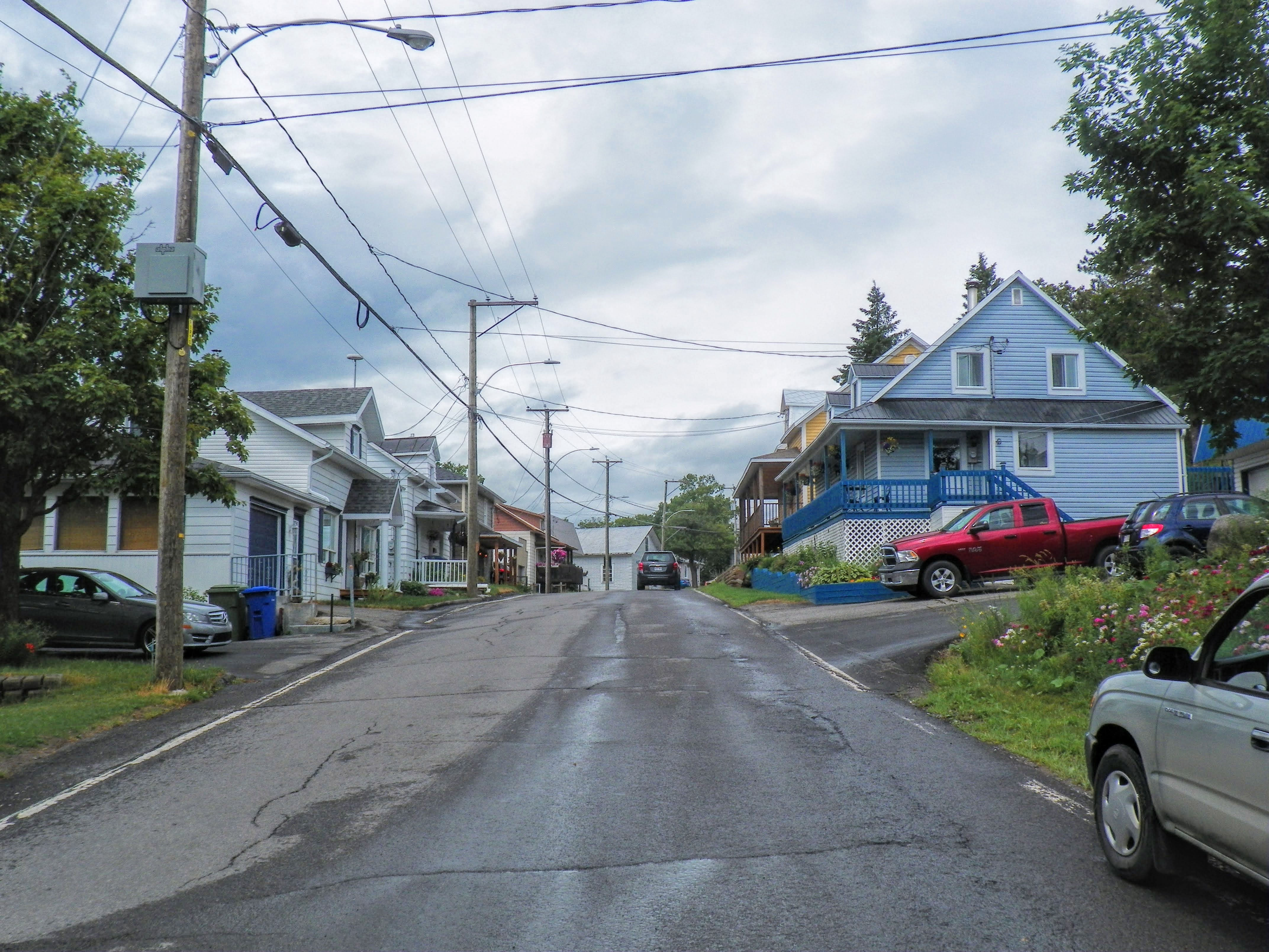 Principale street (main street, route 216 east) in Saint-Sylvestre, Québec.